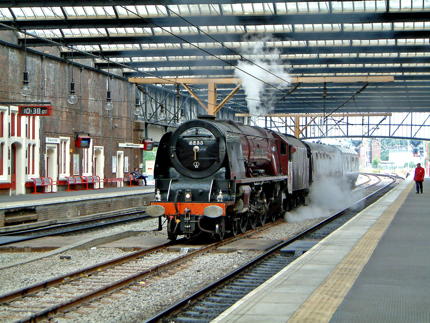 Steam train at Stoke-on-Trent station, July 2004. LMS 4633 Duchess of Sutherland at Stoke-on-Trent, July 2004. Platform 1 is on the right, and platform 2 is on the left, the bay platform 3 in the back left.